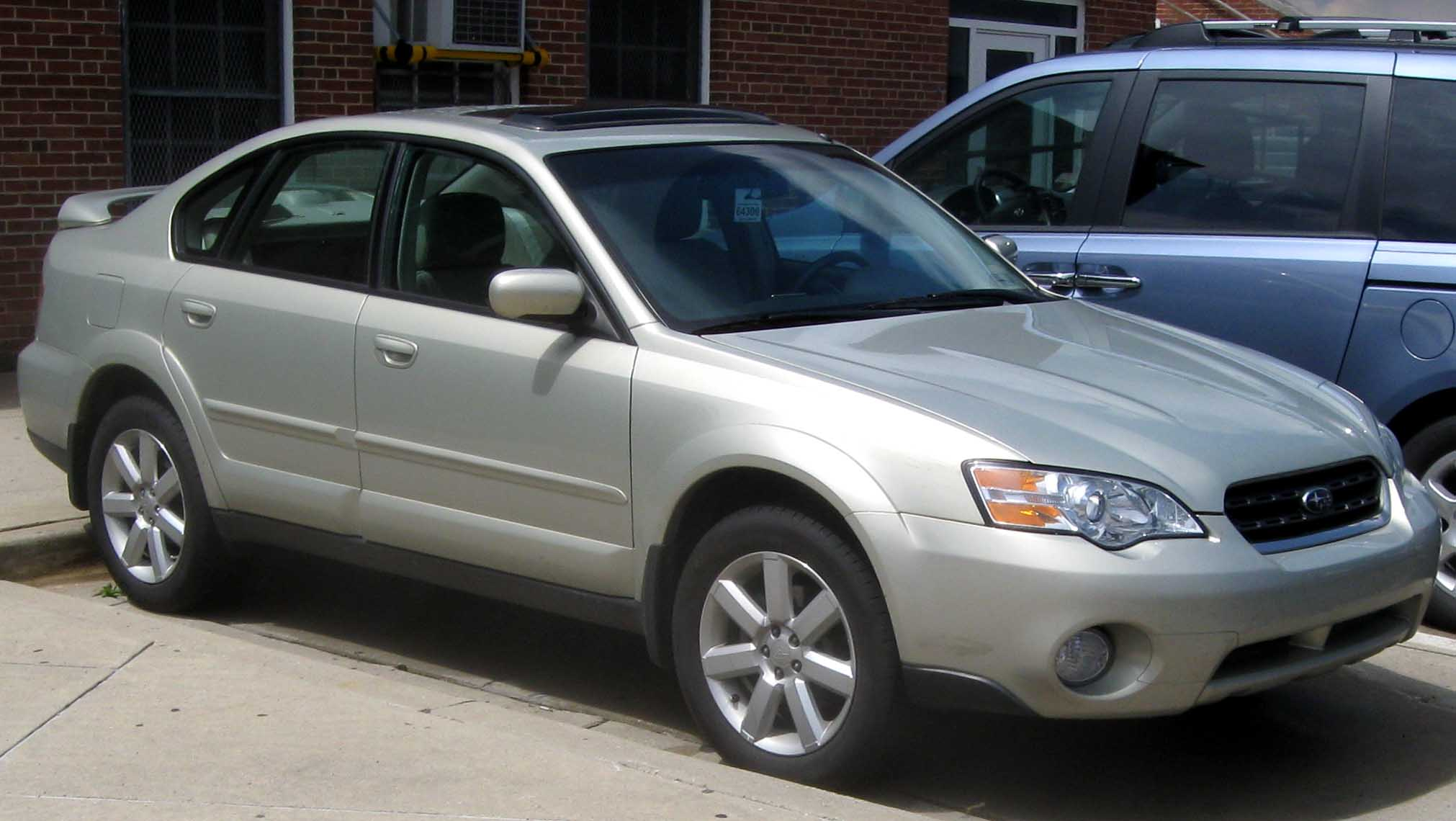 2005-2007 Subaru Outback photographed in College Park, Maryland, USA.